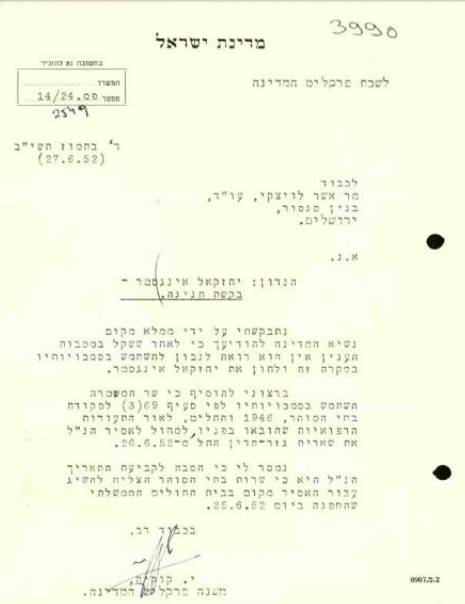 כתב השחרור של יחזקאל אינגסטר